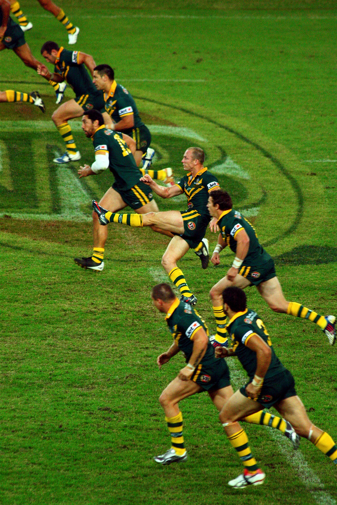 Tried numerous times to get this photo similar to the one i have with my mate marching in the parade - wanted to have Lockyer (the kicker) in focus and everything else not. Turns out it was a little too difficult for me! Would love to see a more skilled photoshop user try it out.